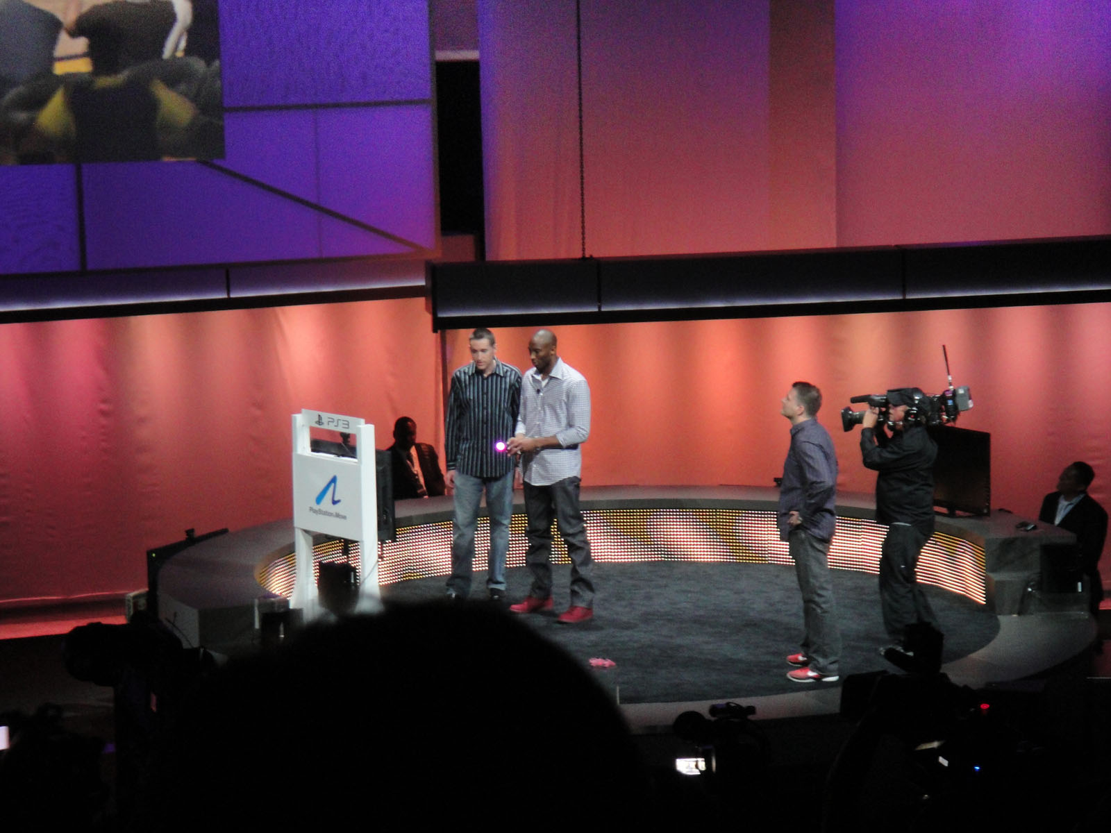 photo 2011 taken by Doug Kline If you're interested in higher resolution versions of my images, contact me via my profile page.